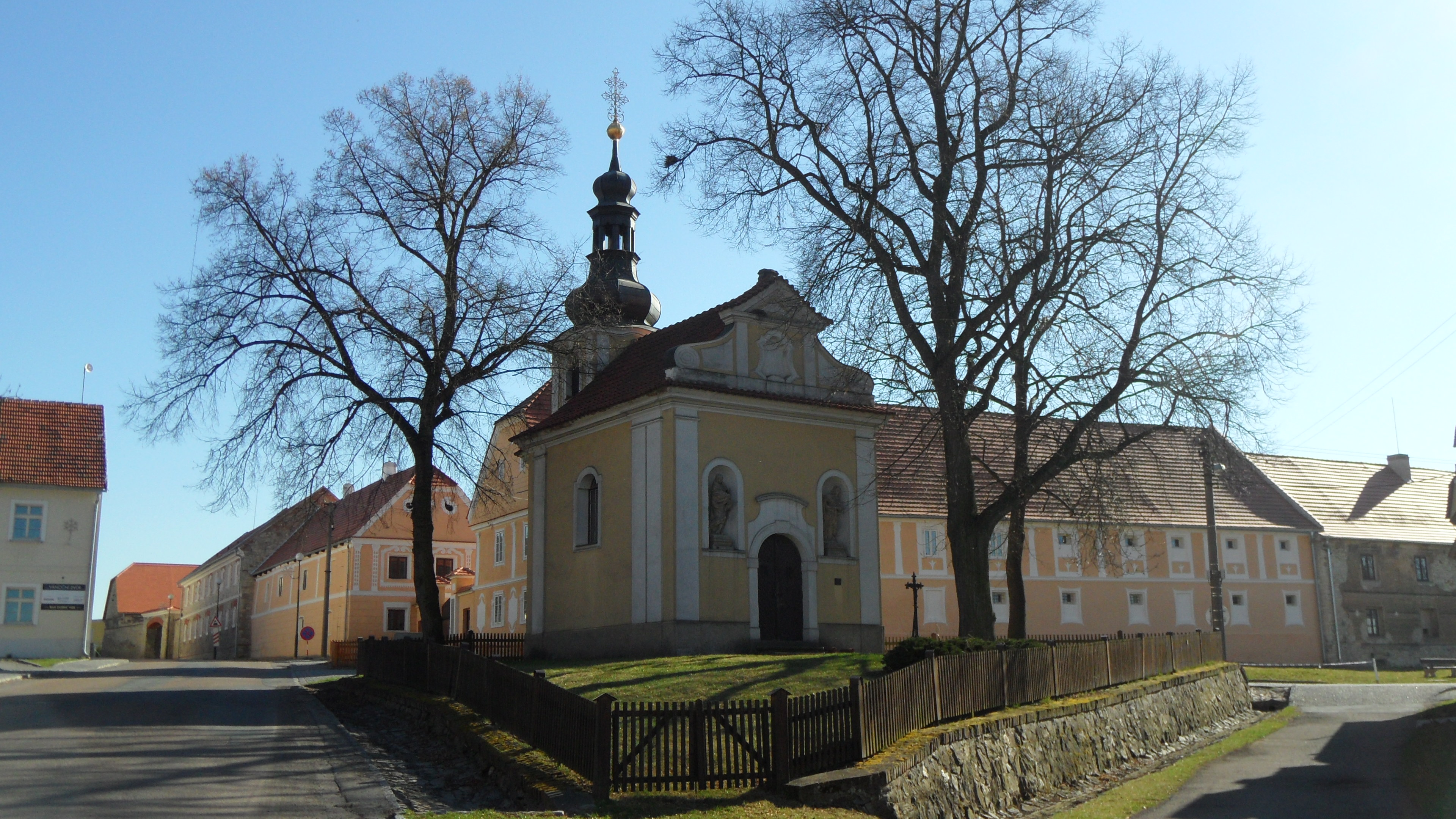 St Bartholomew church in Hostouň (Kladno District), Czech Republic.